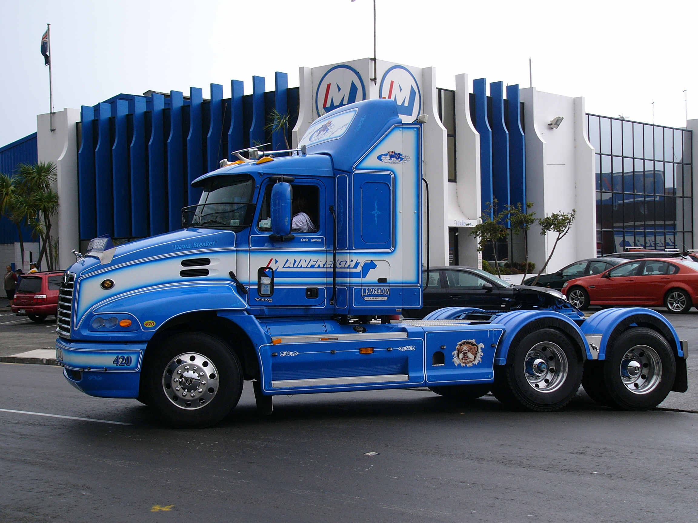 2004 Mack CX688